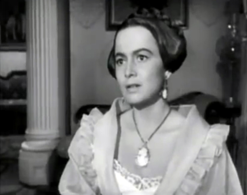 Olivia de Havilland in The Heiress trailer, 1949